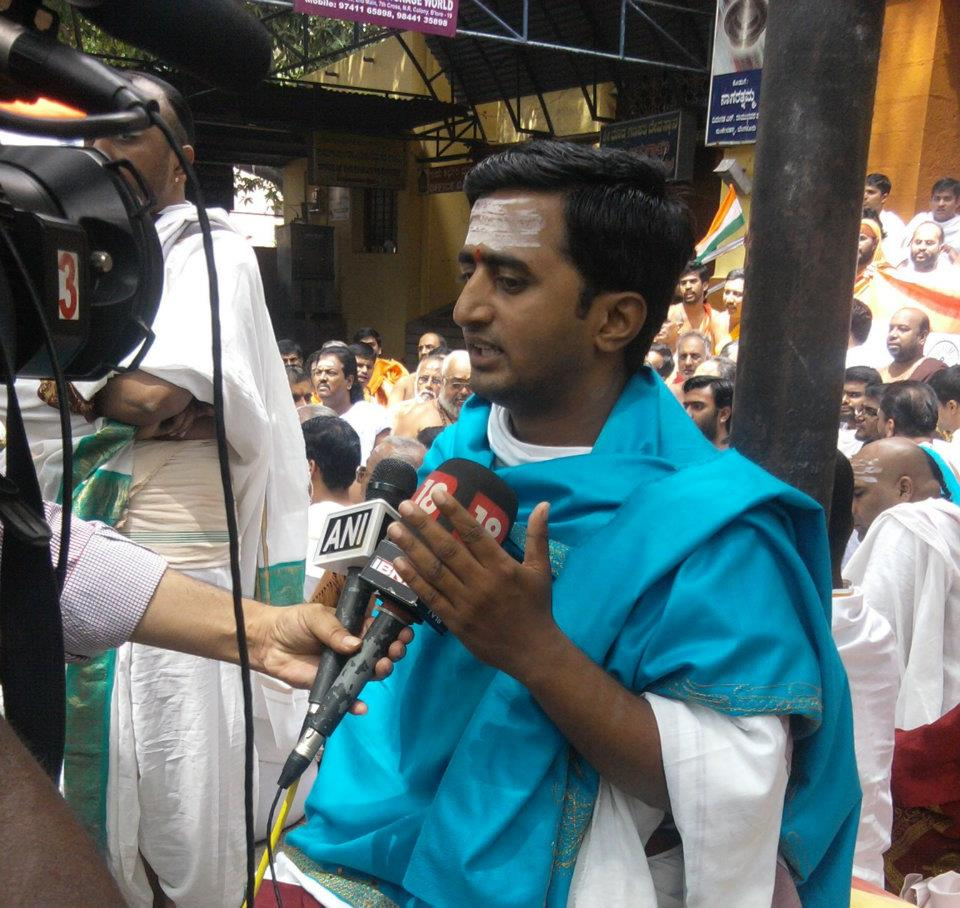 Dattaraj while talking to the media representatives